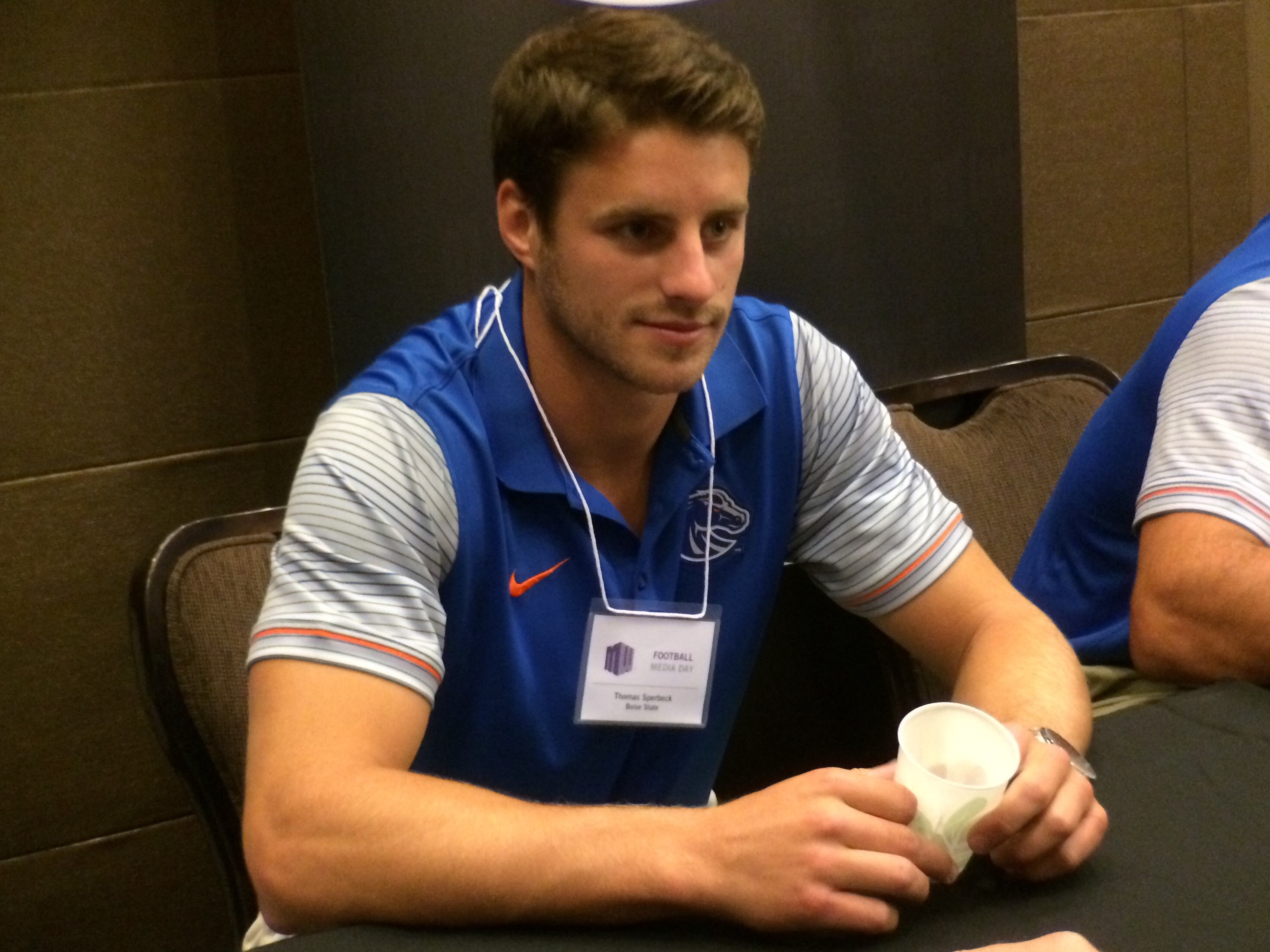 Thomas Sperbeck, wide receiver for the Boise State Broncos football team, at the 2016 Mountain West Conference Media Days in the The Cosmopolitan in Las Vegas.